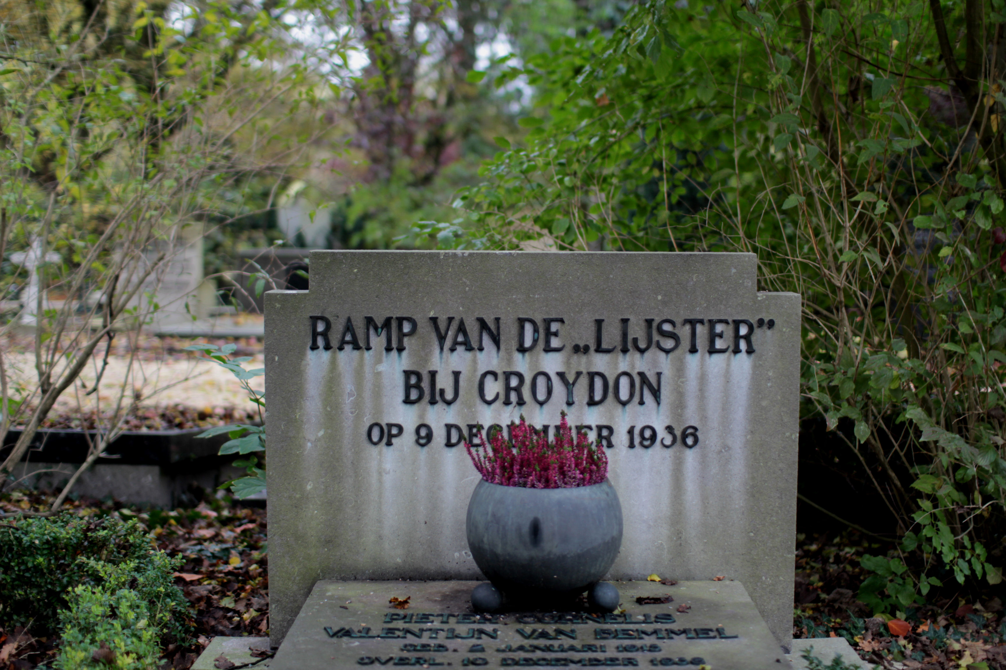 Zorgvlied cemetery, Grave monument to victims of the Lijster crash near Croydon